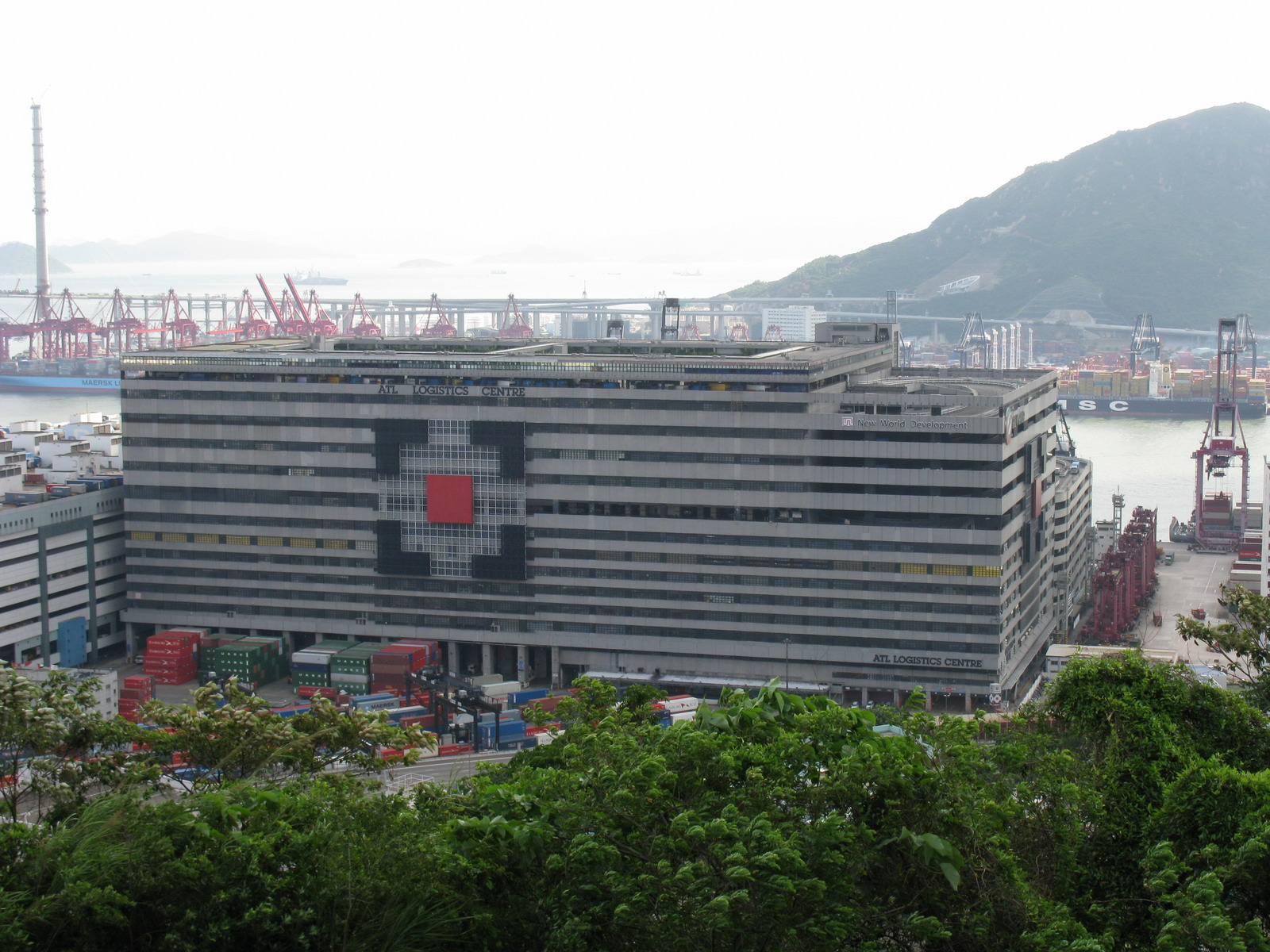 ATL Logistics Centre Block A, Kwai Tsing Container Terminals